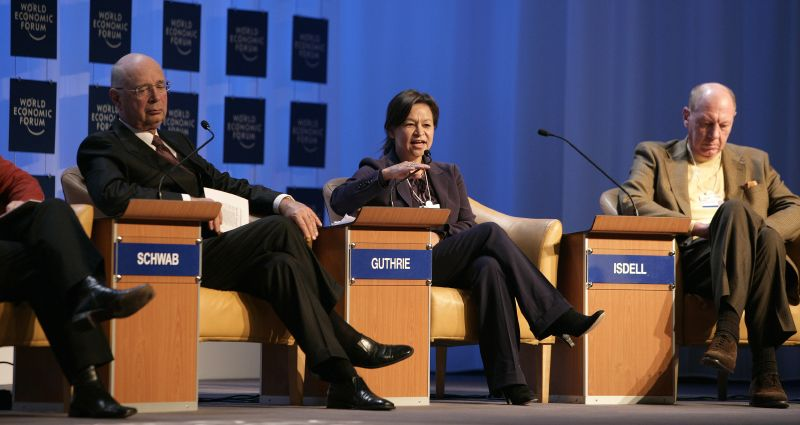 DAVOS/SWITZERLAND, 24JAN07 - Klaus Schwab, Founder and Executive Chairman, World Economic Forum, Michelle Guthrie, Chief Executive Officer, Star Group, Hong Kong SAR; Young Global Leader, E. Neville Isdell, Chairman and Chief Executive Officer, The Coca-Cola Company, USA, captured during the session 'Opening Plenary: The Shifting Power Equation' at the Annual Meeting 2007 of the World Economic Forum in Davos, Switzerland, January 24, 2007.